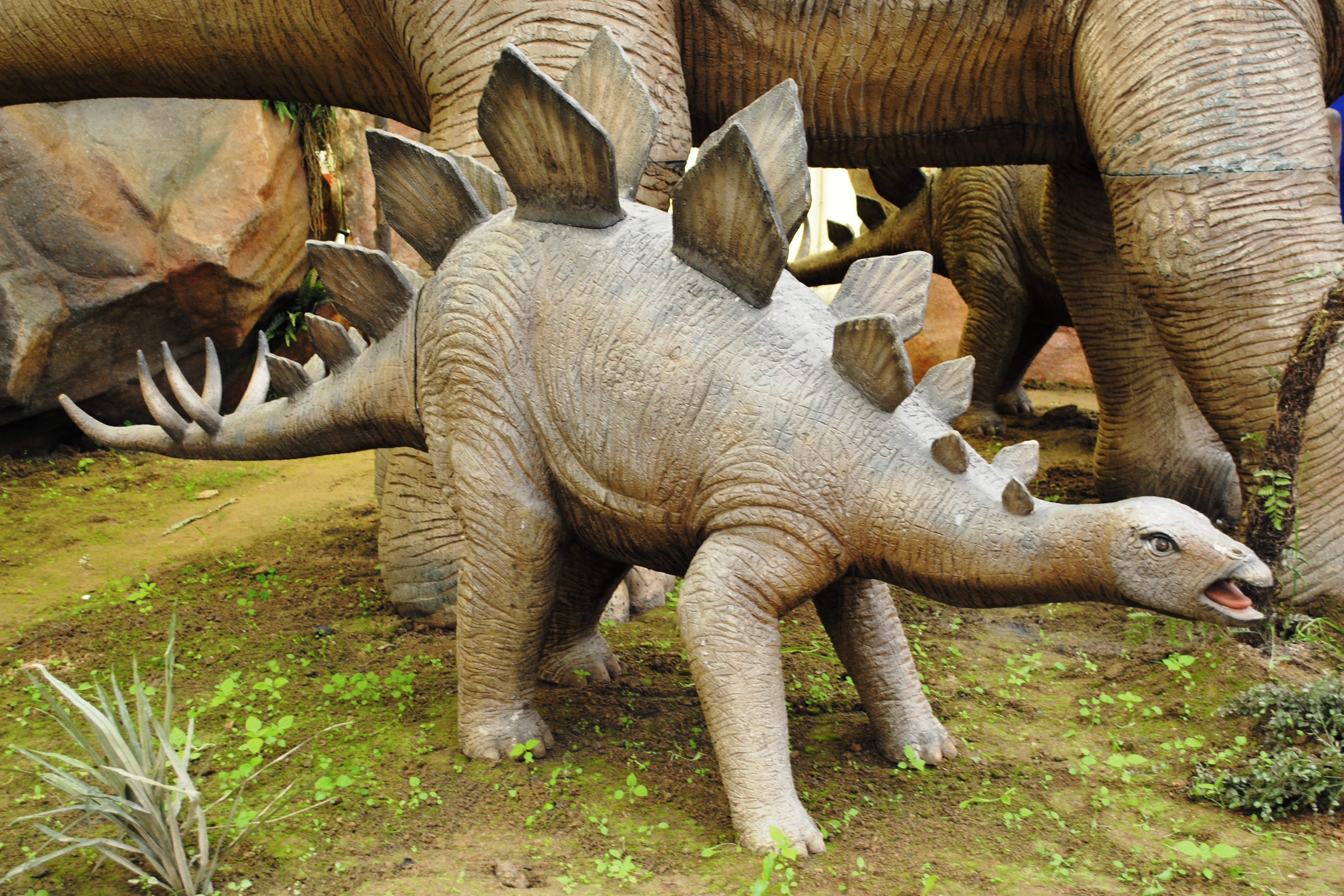 Dinosaurios Park, Stegosaurus young